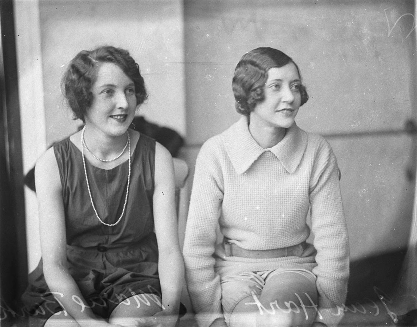 Two actresses, Jean Hart and Marie Burke